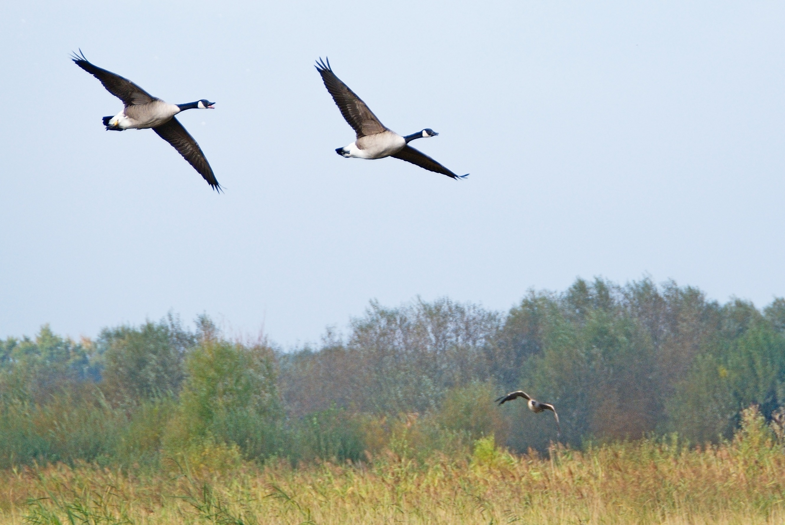 Name: Branta canadensis. Family: Anatidae. Location: Naturerlebnisraum Rieselfelder, Münster, NRW, Germany